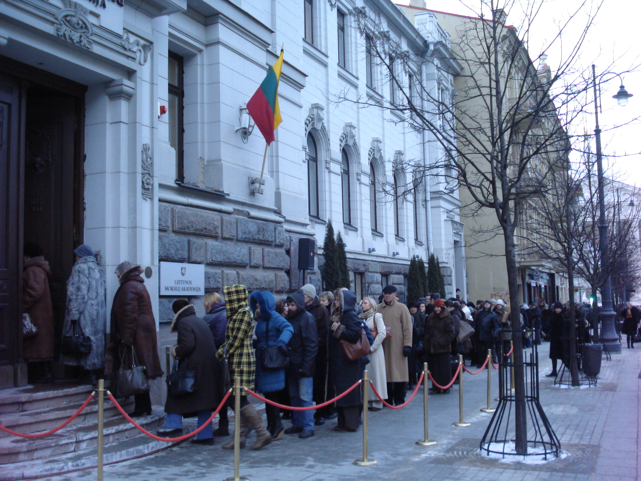 Mourners queue to pay their last respects to the poet Justinas Marcinkevičius in the Great Hall of the Lithuanian Academy of Sciences in Vilnius, Lithuania